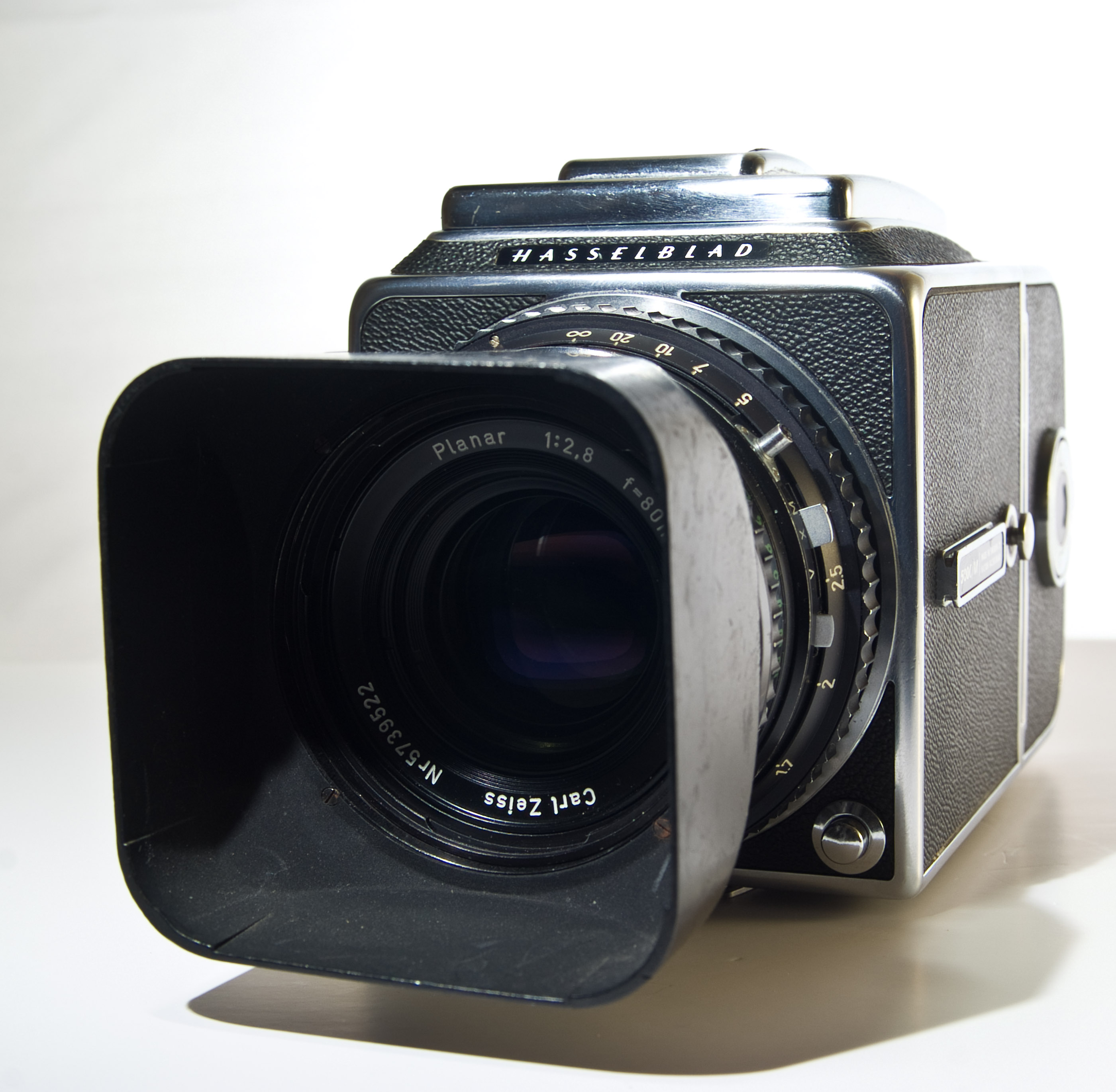 Hasselblad 500 C/M with Carl Zeiss Planar 2.8/80 mm